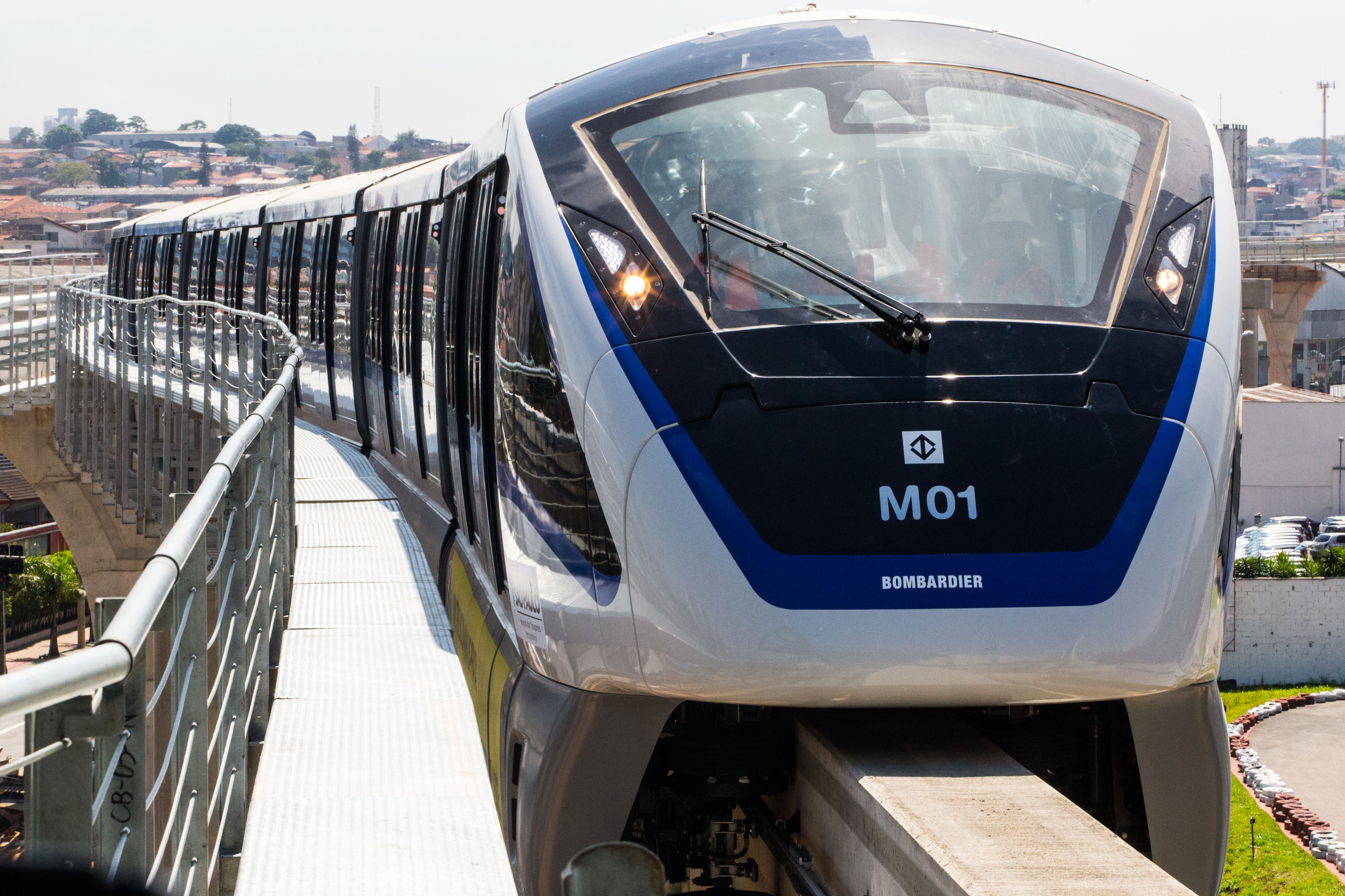 Foi realizada na manhã de sexta-feira (10) uma viagem experimental do monotrilho da linha 15 Prata do Metrô de São Paulo. Foram percorridos 600 metros entre a futura estação Oratório e o Pátio Oratório. DATA: 10/01/2014 LOCAL: São Paulo/SPFOTO: GUILHERME LARA CAMPOS/A2 FOTOGRAFIA